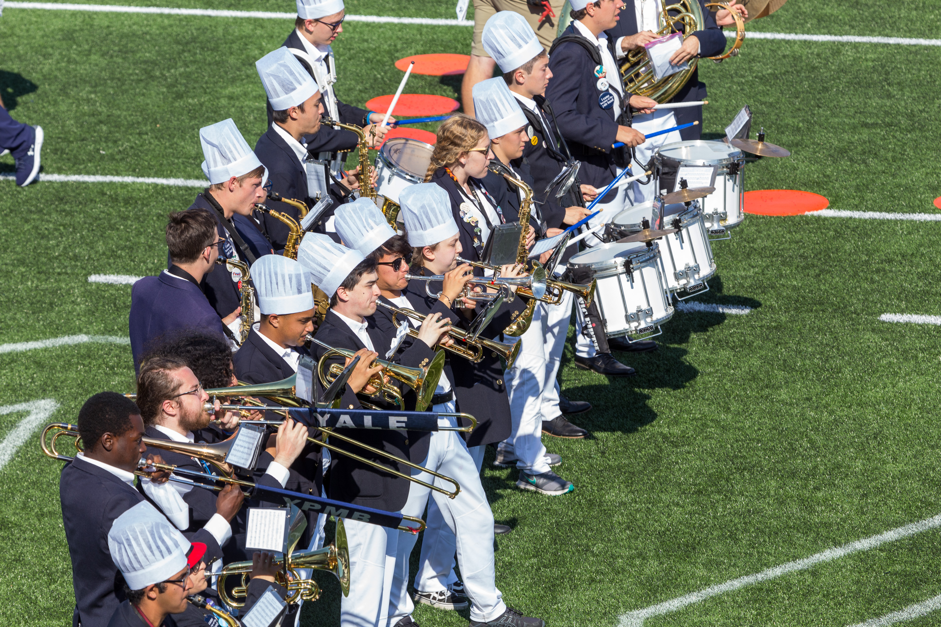 Yale Precision Marching Band wearing chef hats. Yale/Cornell Football game at Yale Bowl, Sept 28, 2019.